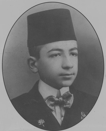 A childhood image of Turkish author Peyami Safa. The writer himself notes that this photo will be published soon (in a literary magazine) (1913).